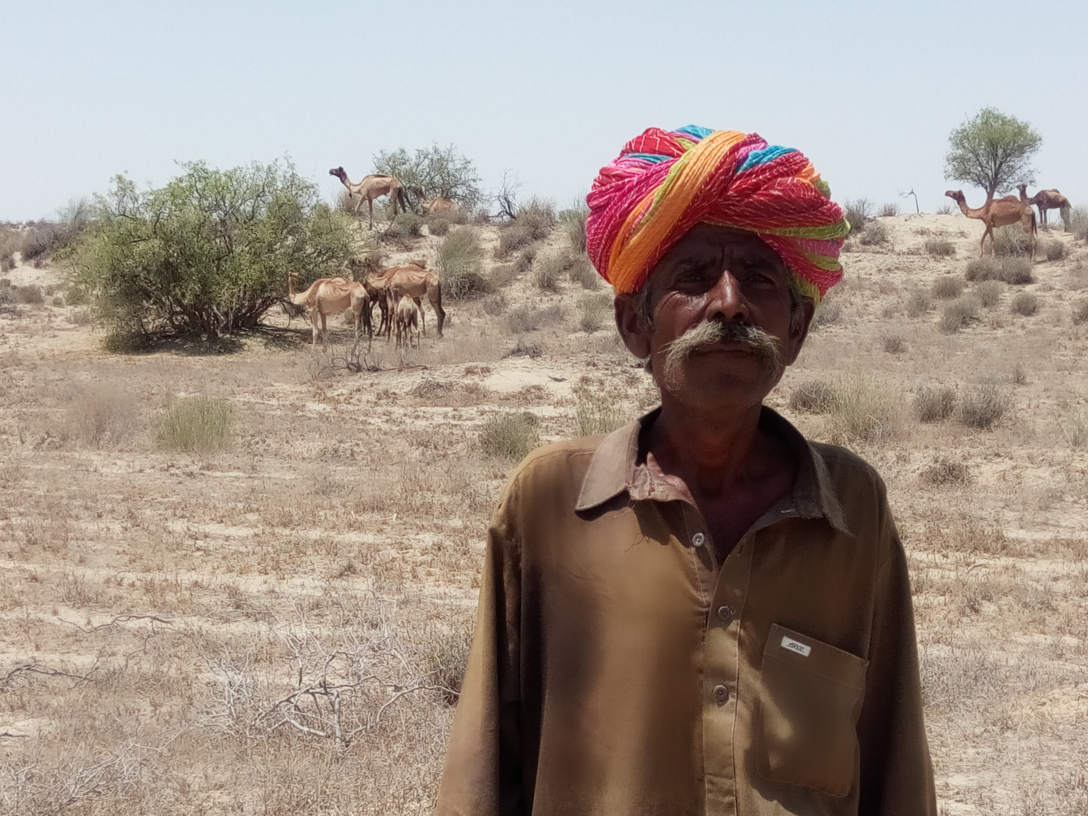 Hard and difficult situation of thar